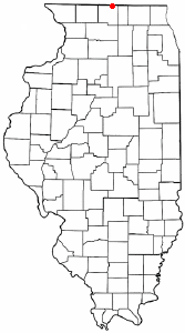 Category:Illinois city locator maps